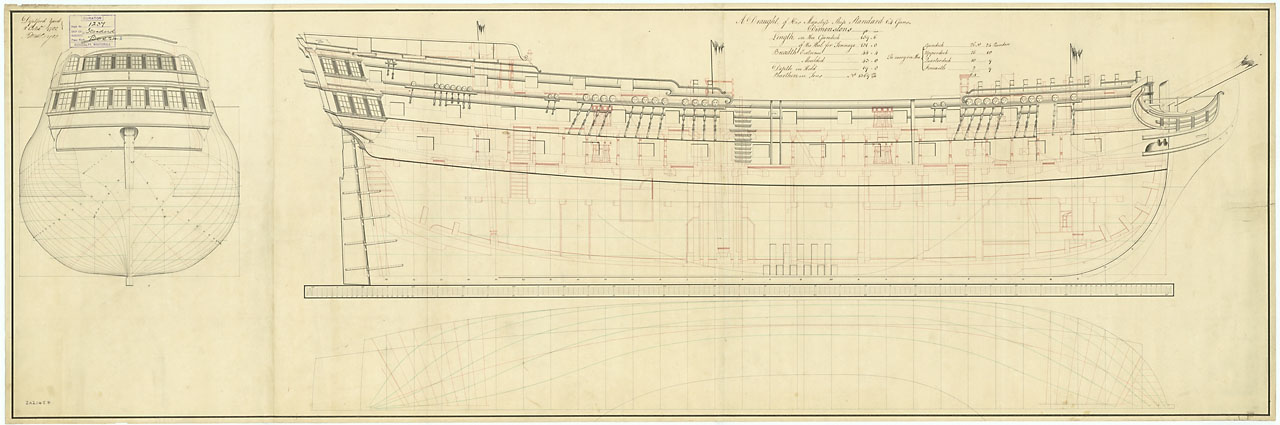 Scale: 1:48. Plan showing the body plan with stern board detail, sheer lines with inboard detail, and longitudinal half-breadth for 'Standard' (1782), a 64-gun Third Rate, two-decker, as built at Deptford Dockyard.